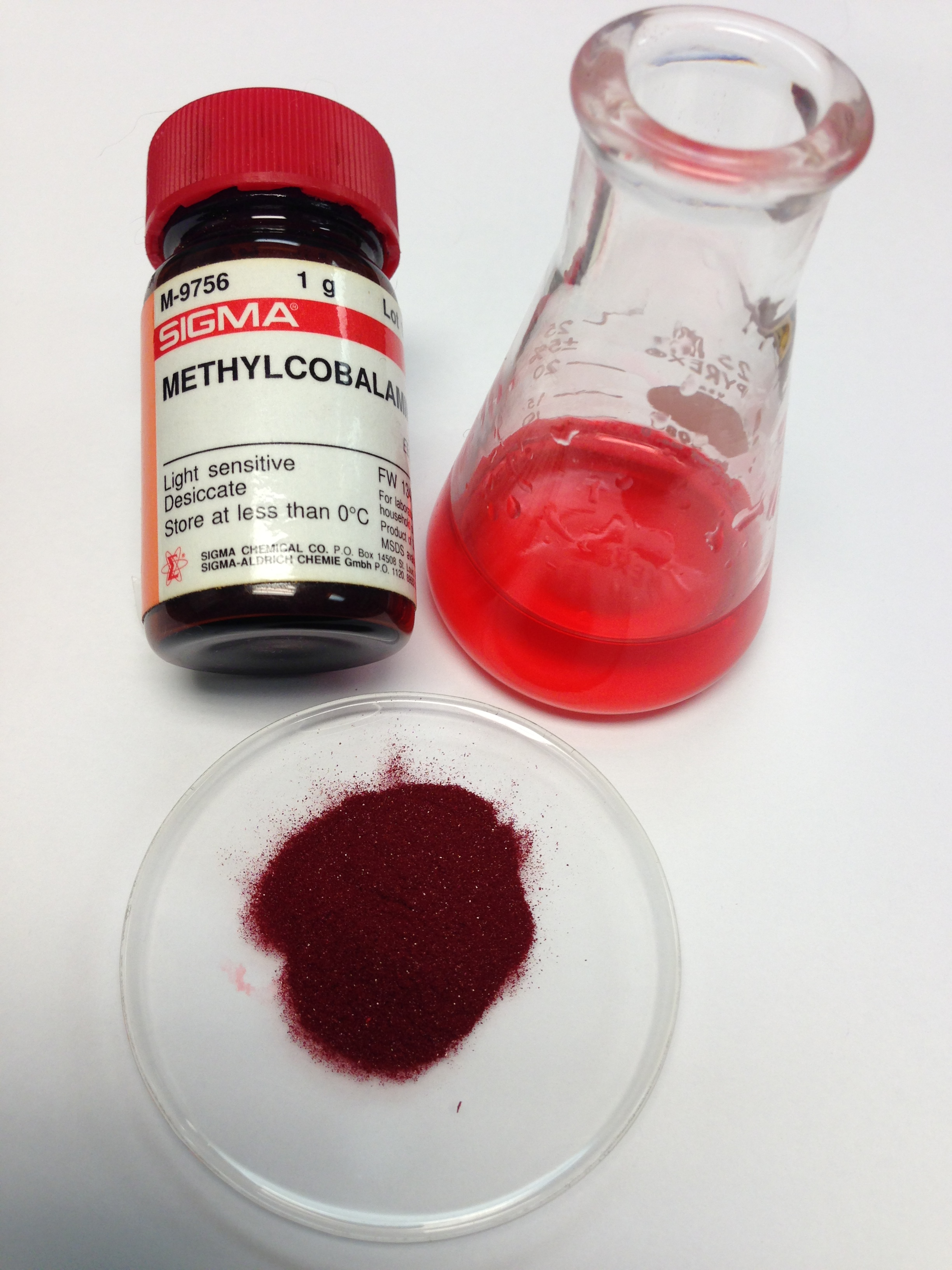 Methylcobalamine is a form of vitamin B-12. It is a dark red crystal which forms a cherry red transparent solution in water.